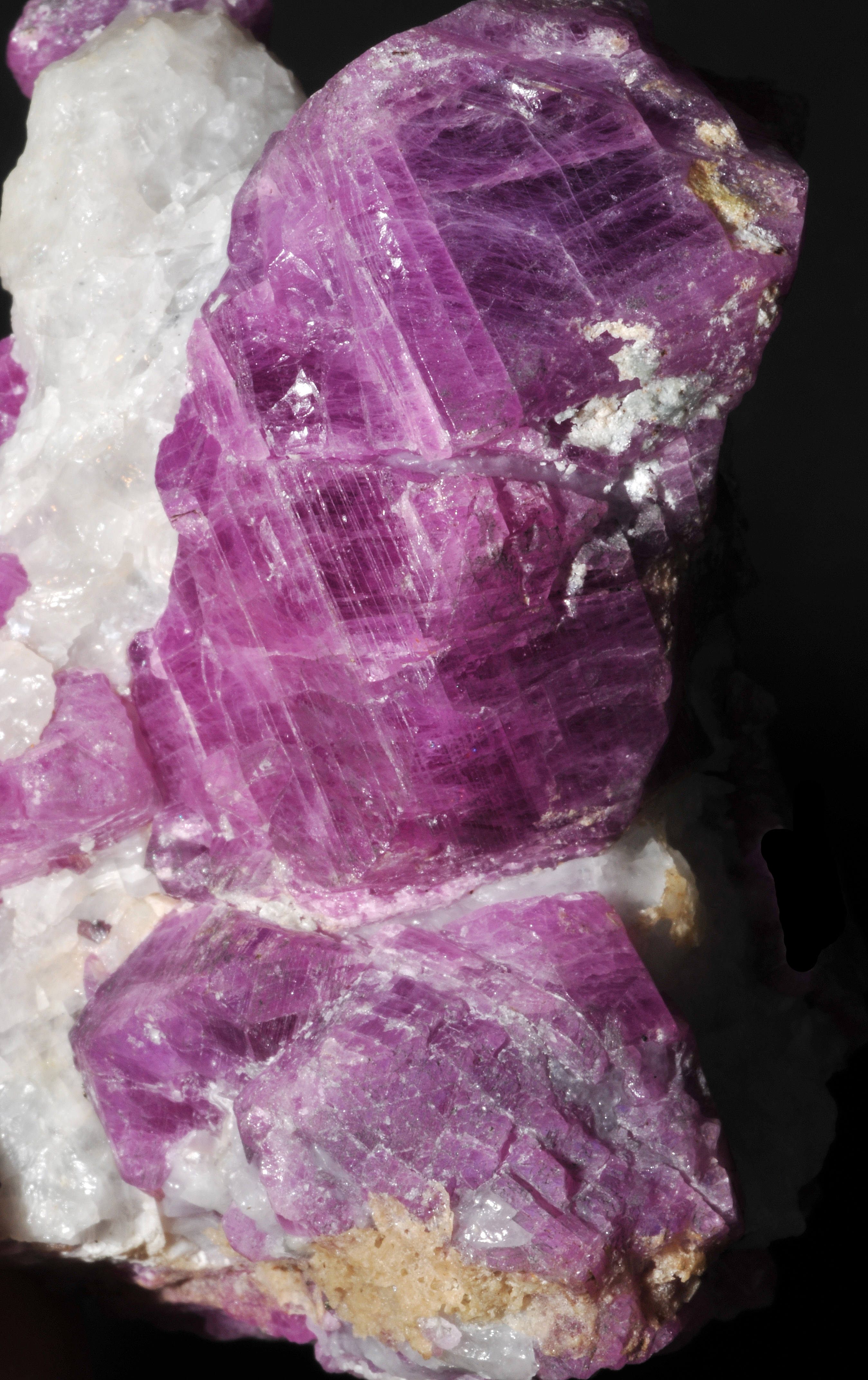 crystals of corundum var. ruby, crystals of calcite : Luc Yen Mine, Luc Yen, Yenbai (Yen Bai) Province, Vietnam - crystal : 50 mm